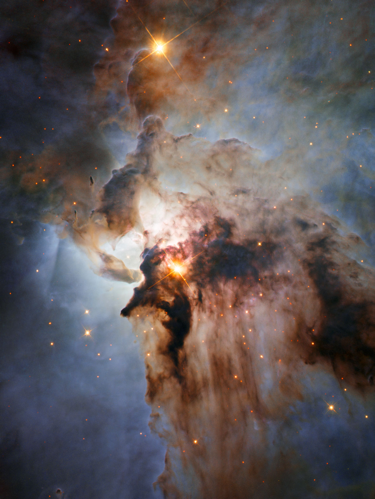 This new NASA/ESA Hubble Space Telescope image shows the Lagoon Nebula, an object with a deceptively tranquil name. The region is filled with intense winds from hot stars, churning funnels of gas, and energetic star formation, all embedded within an intricate haze of gas and pitch-dark dust.